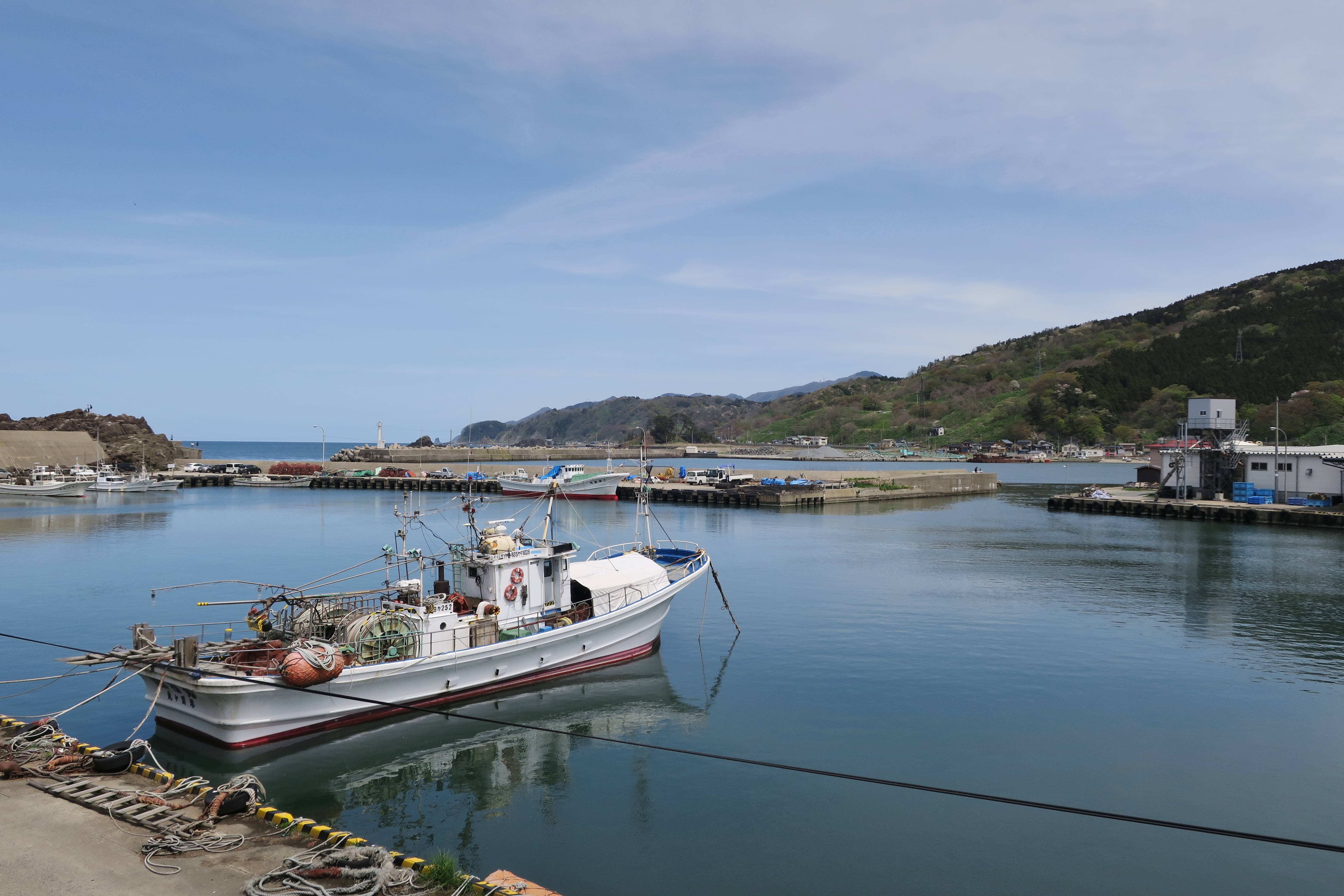 Port of Nezugaseki (Tsuruoka, Yamagata).